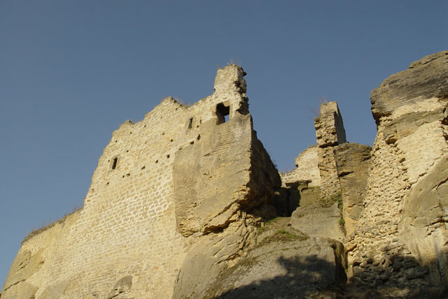 Description: Helfenburk Castle in Northern Bohemia, Czech Republic Source: My own work Author: Bernd Janning, Date: 15.10.05